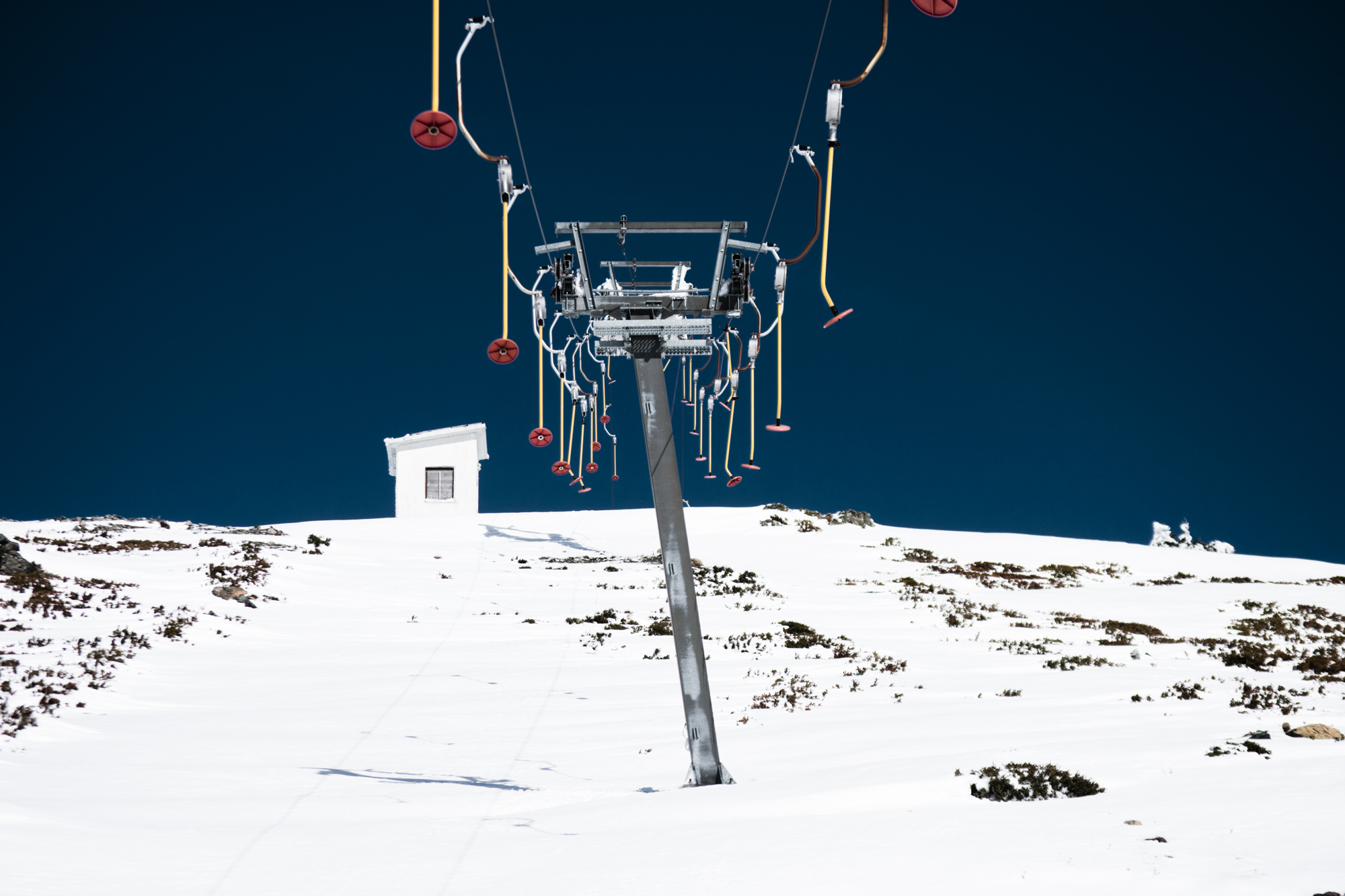 This is a photography of Natura 2000 protected area with ID GR2130006